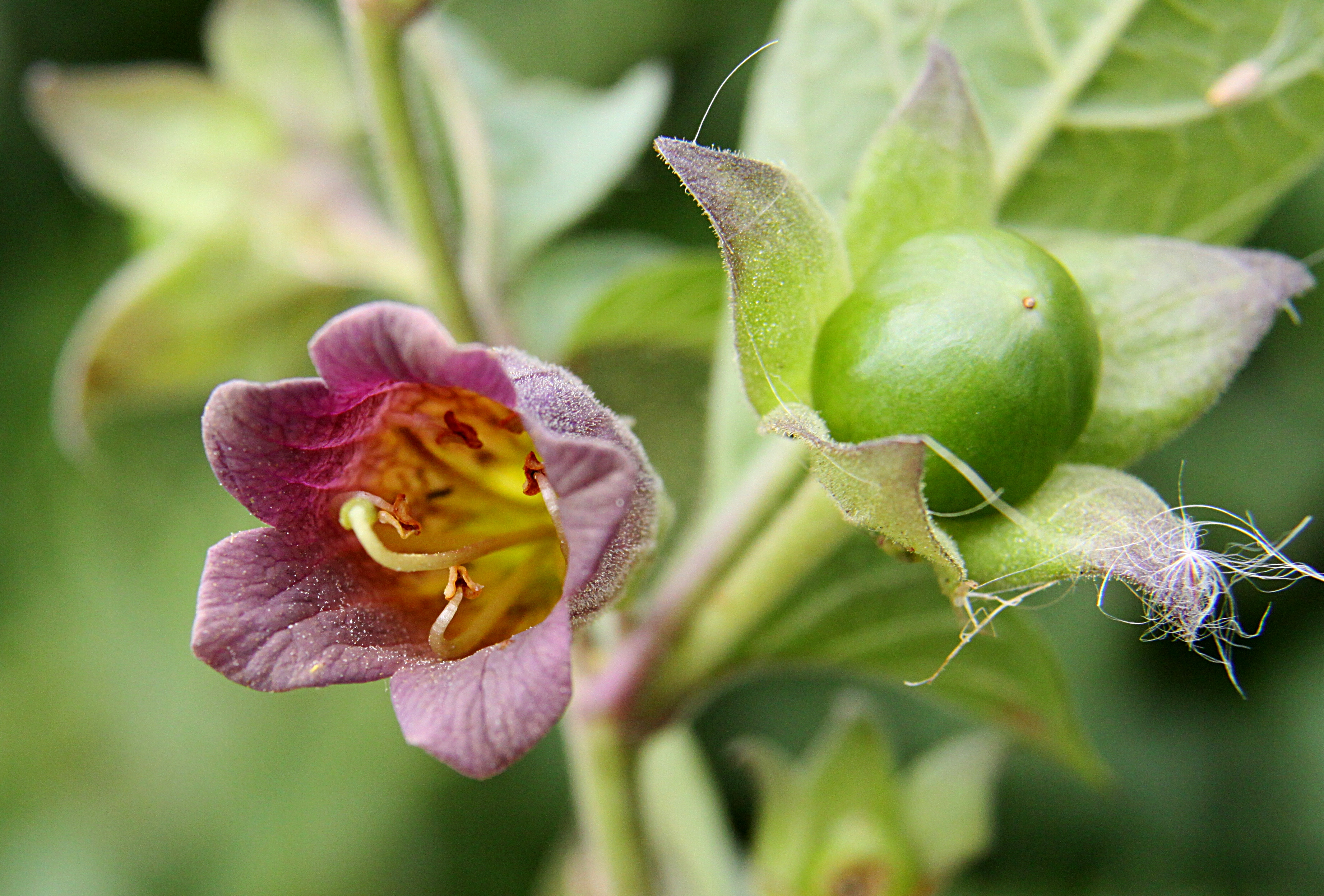 Atropa belladonna on Ranmore Common, Surrey